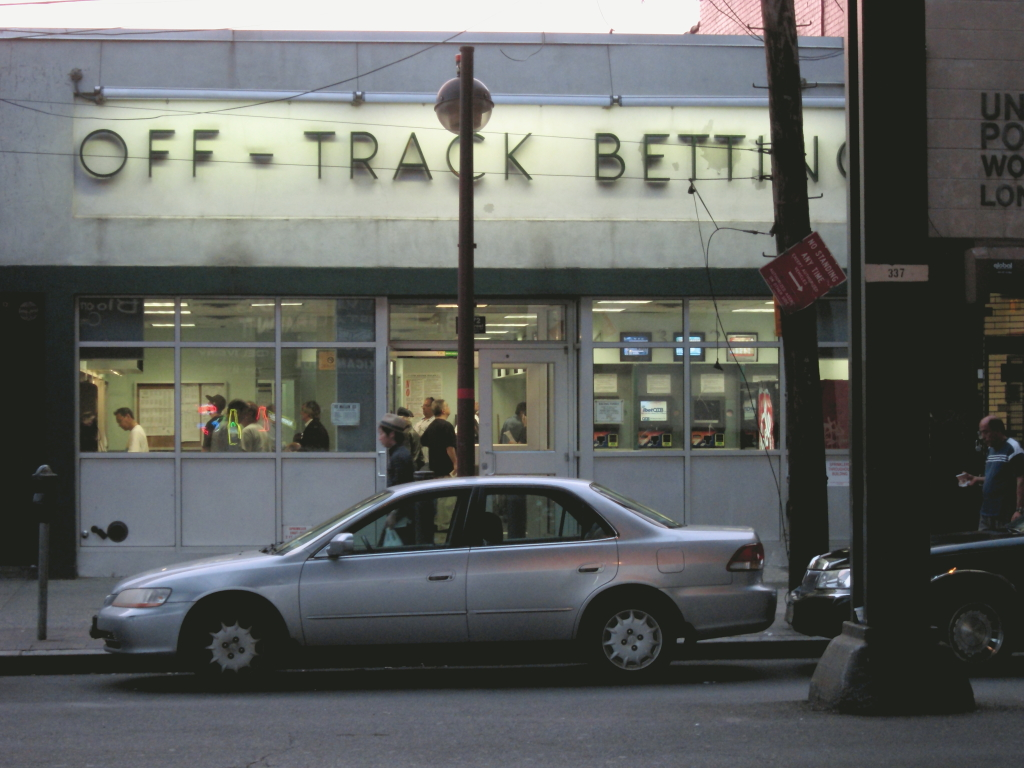 A branch of the New York City Off-Track Betting Corporation in Ditmars, Queens